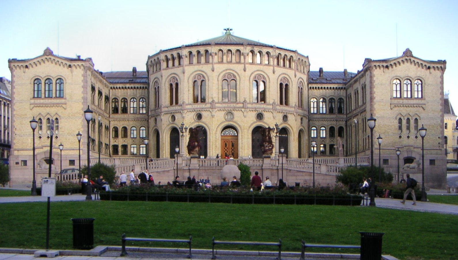 norwegian parliament in Oslo